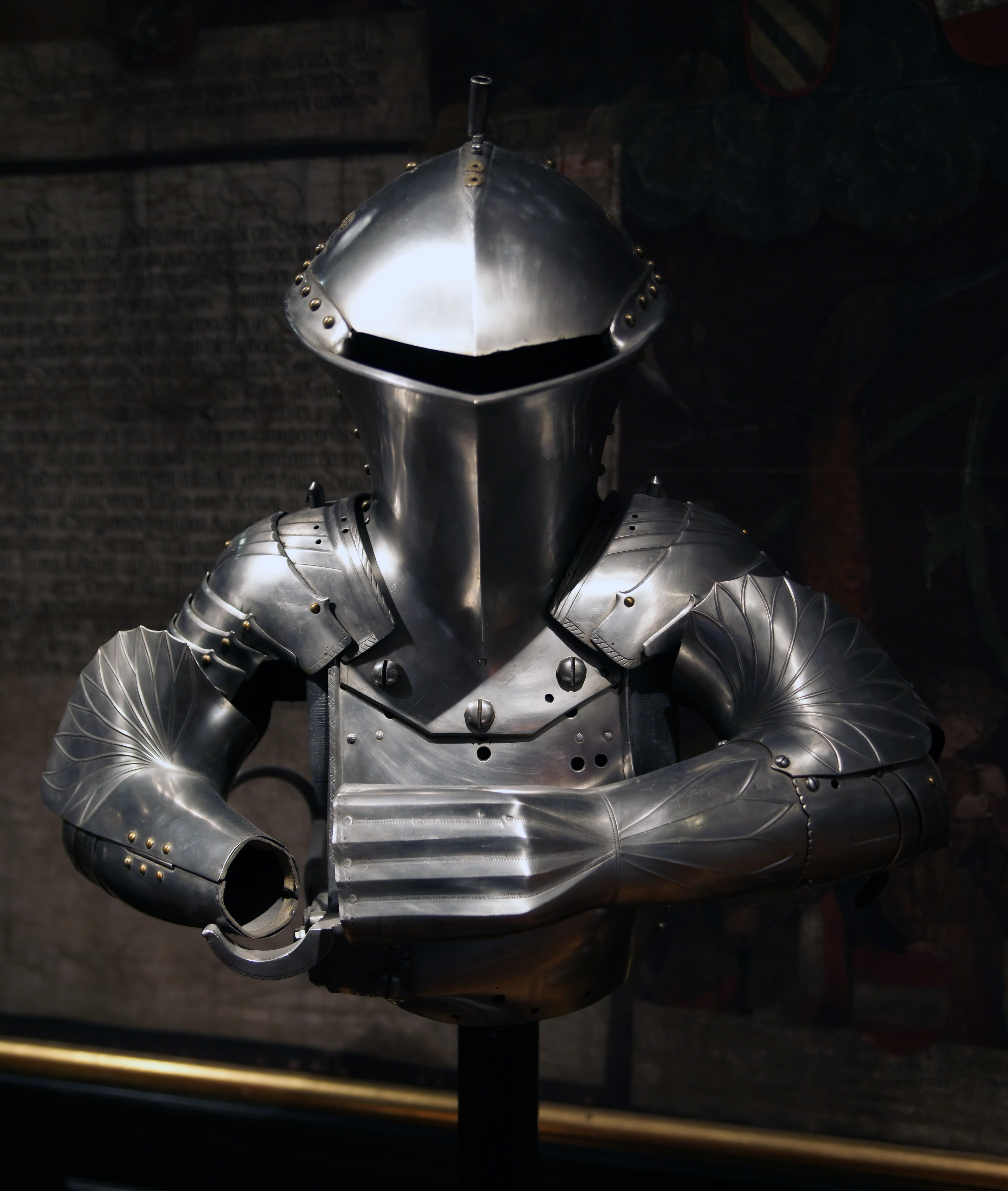 Part of a jousting armour commissioned by Emperor Maximilian I.